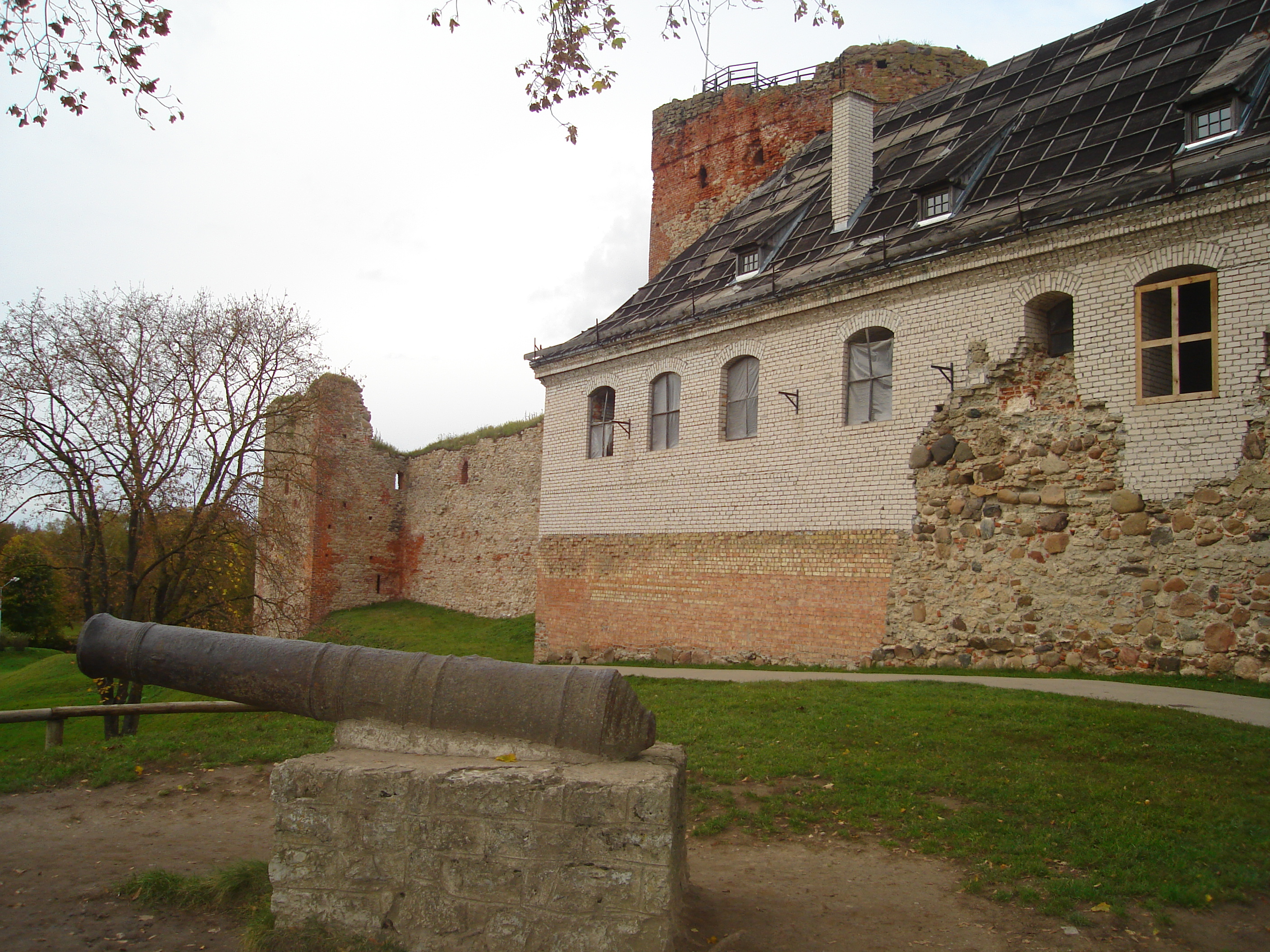 Picture of Bauska Castle